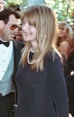 Michelle Pfeiffer at the 62nd Annual Academy Awards.